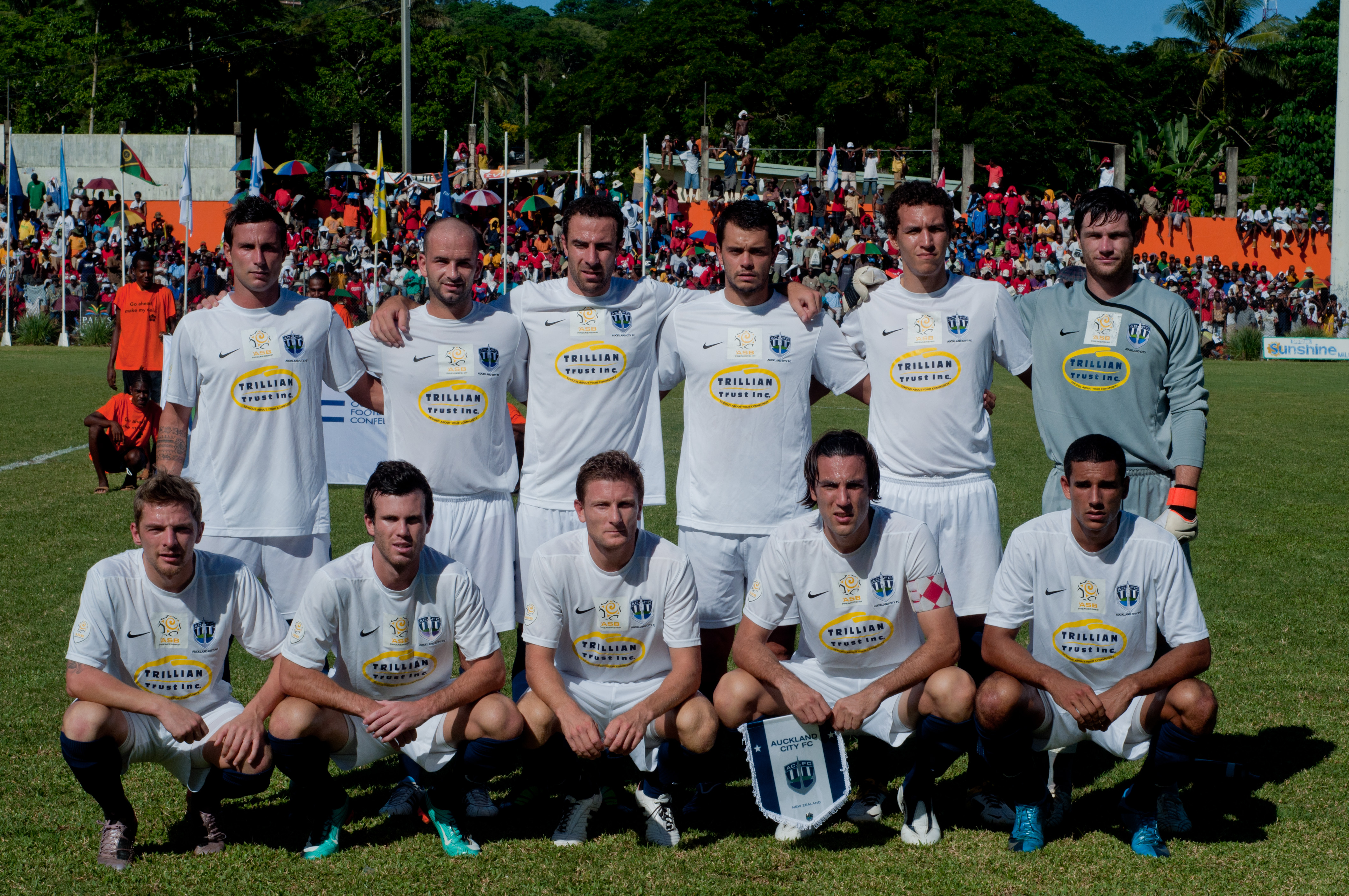 The Auckland City team. ( Amicale Vs Auckland City.)